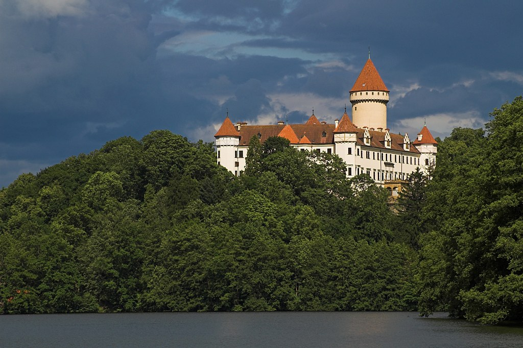 Konopiště Chateau (zámek Konopiště) was founded at the end of 13th century as a medieval castle in French Gothic style and later it was later rebuilt into a Baroque chateau. Its current look is a result of the last renovation made by Archduke Franz Ferdinand d'Este, the successor to the Austro-Hungarian throne, who bought the castle in 1887. This is a close-up of Konopiště Chateau taken from the same place as my next photo. You can find more information about Konopiste Chateau on my Castle Blog. See where this picture was taken. [?]